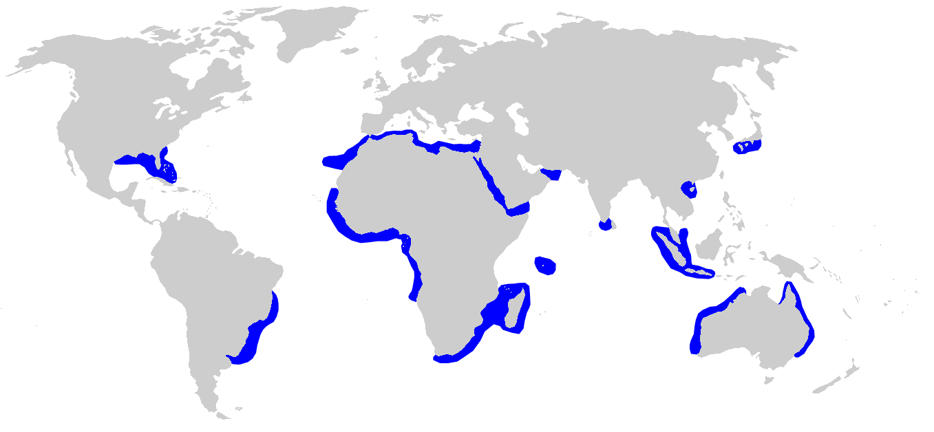 Distribution map for Carcharhinus brevipinna